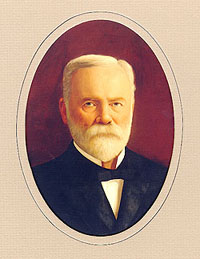 Samuel Willis Tucker Lanham, 23rd Governor of the State of Texas.